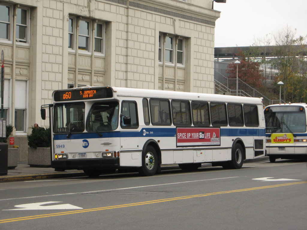 MTA Bus #5949 (formerly Green Lines #5512) in Jamaica, New York serving the Q60 line.